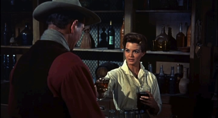 Cropped screenshot of John Wayne and Angie Dickinson from the trailer for the film Rio Bravo